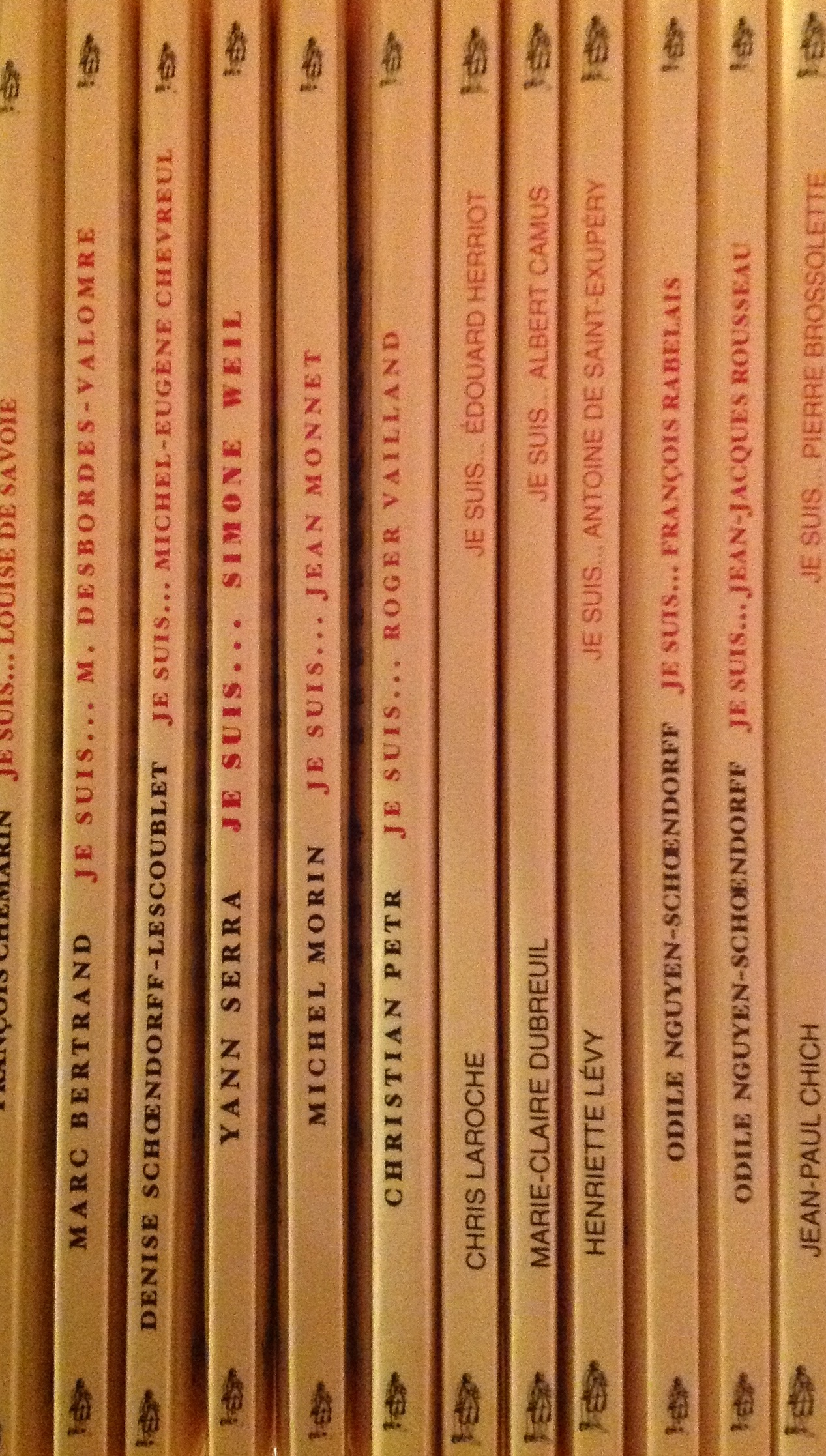 Book spines; what is shown is copyright-ineligible